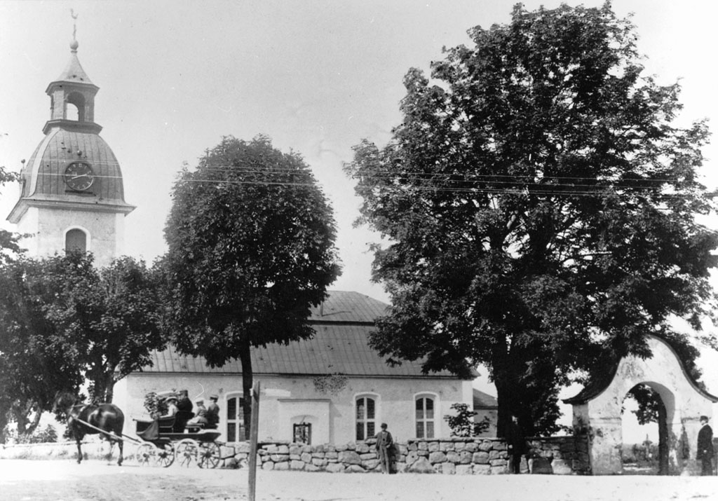 Horse carriage outside Ekeby Church. The church is from 1774 but parts of the walls remain from an earlier medieval church. Format: albumen print.